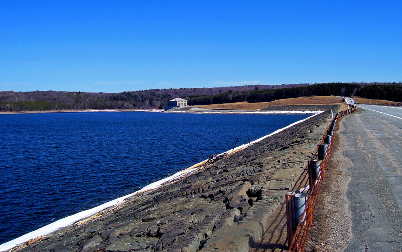 Neversink Reservoir, New York. Photographed from Route 55 along the dam.